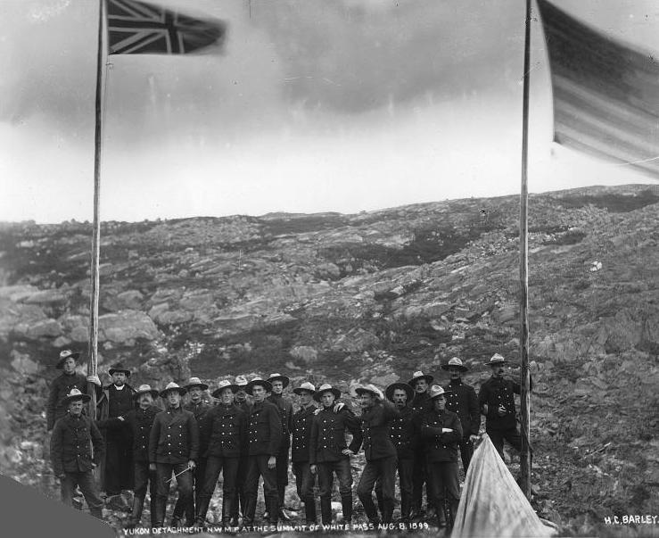 Photograph, Yukon detachment, North West Mounted Police. at the summit of White Pass, YT, 1899, H. C. Barley. Silver salts on glass - Gelatin dry plate process - 20 x 25 cm